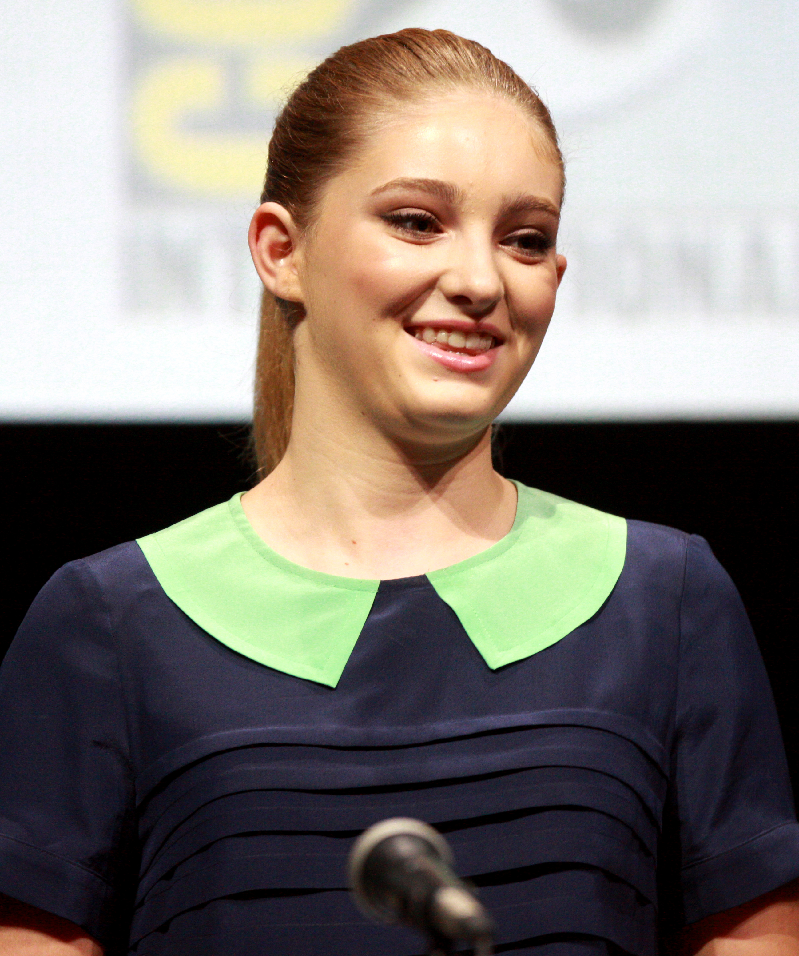 Willow Shields at the 2013 San Diego Comic Con International in San Diego, California.